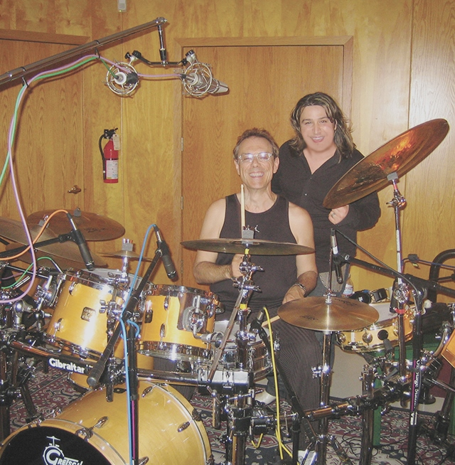 Davi Wornel with Vinnie Colaiuta